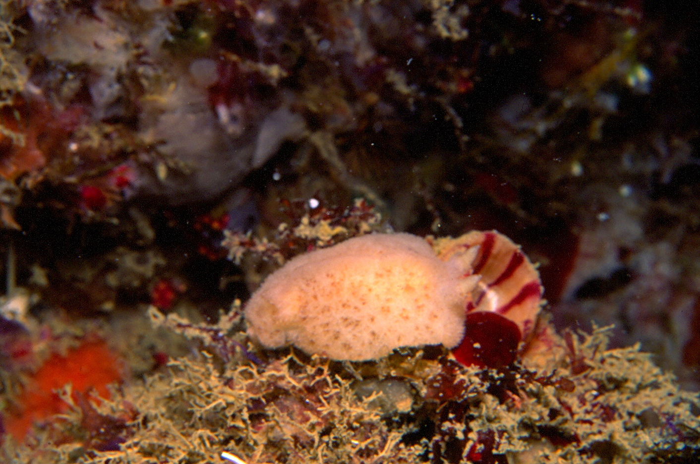 Atagema rugosa Pruvot-Fol, 1951 - Banyuls-sur-Mer : 07/1992